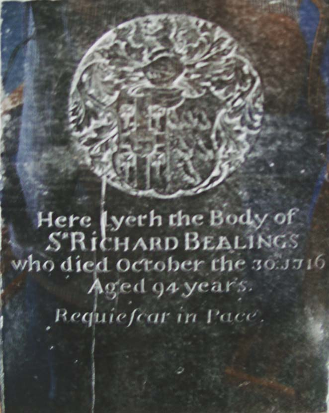 Gravestone of Richard Bellings; my own photo